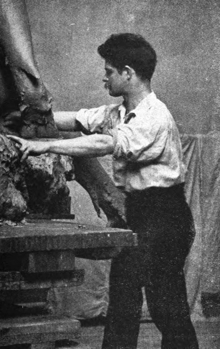 George Grey Barnard